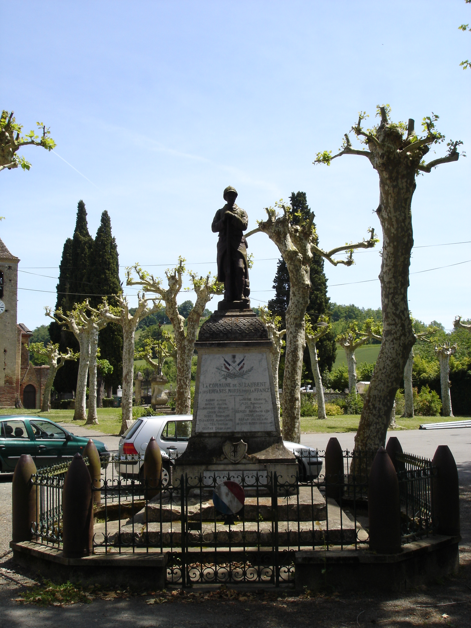 Saint-Laurent sur Save (France)